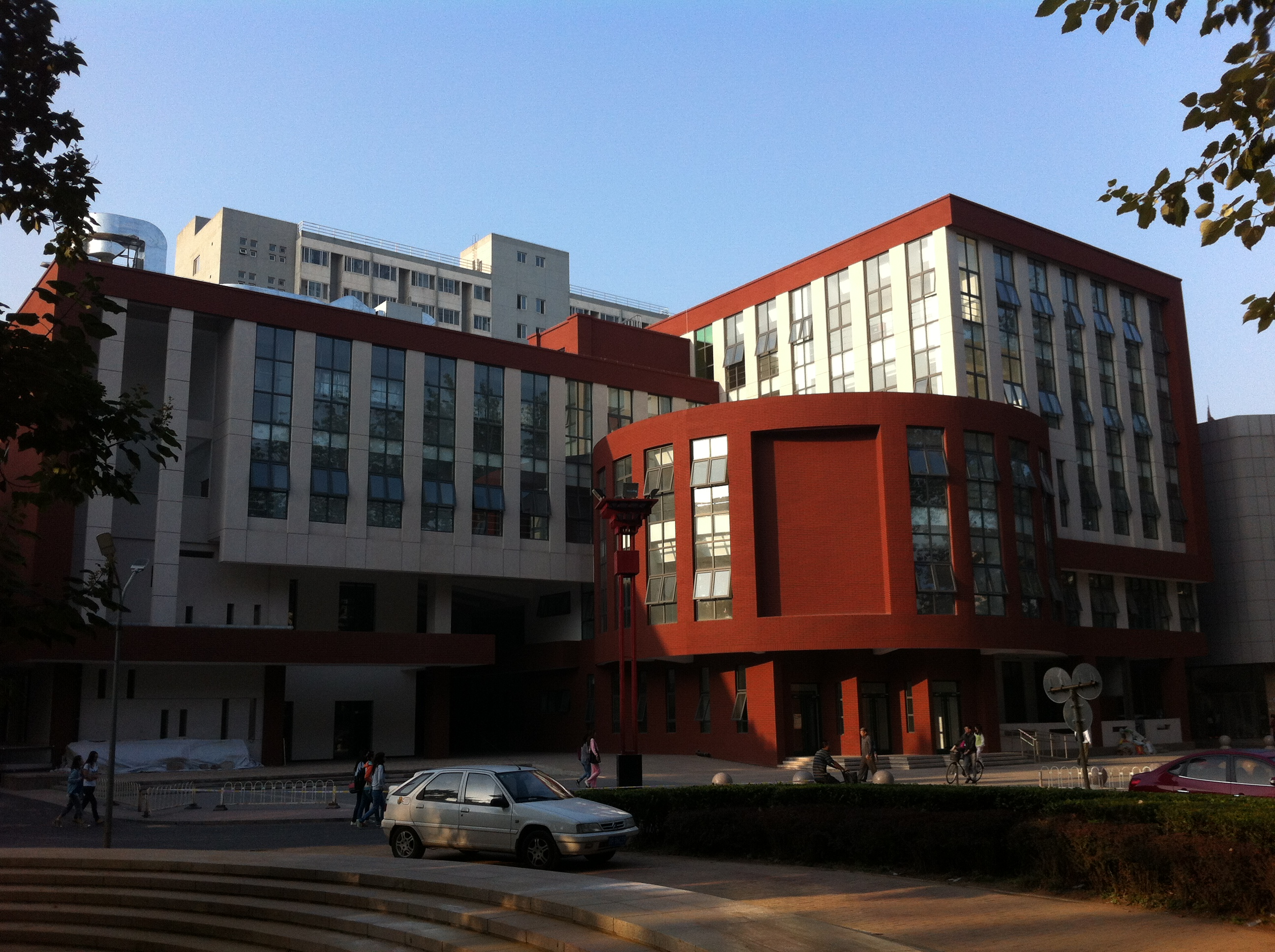 The just finished student activity center on a nice morning.